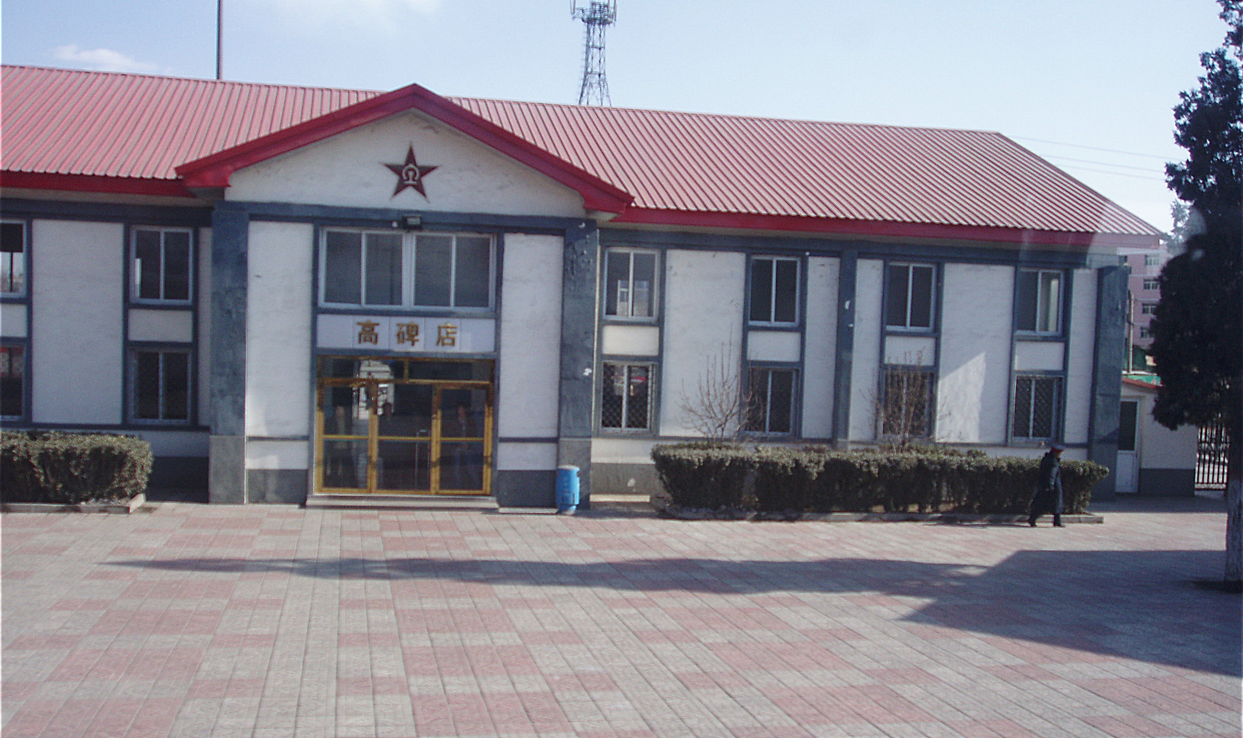 Gaobeidian City, Hebei Province, China